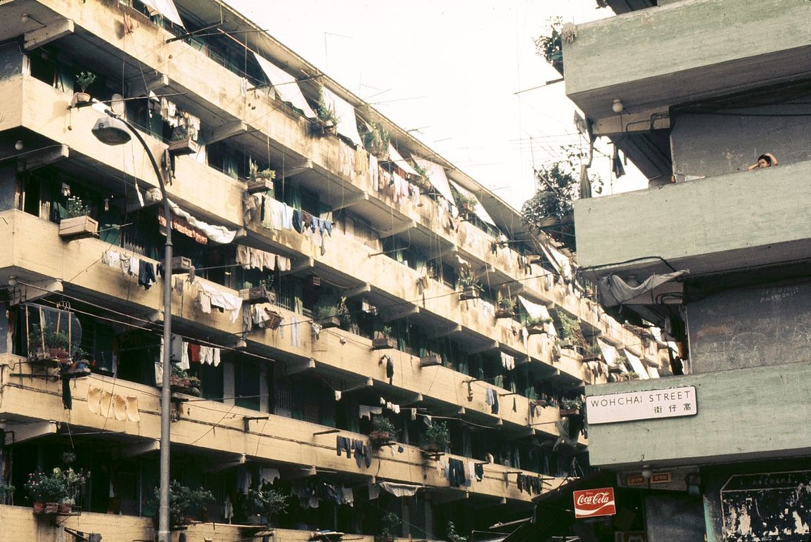 Apartment house; Hong Kong.